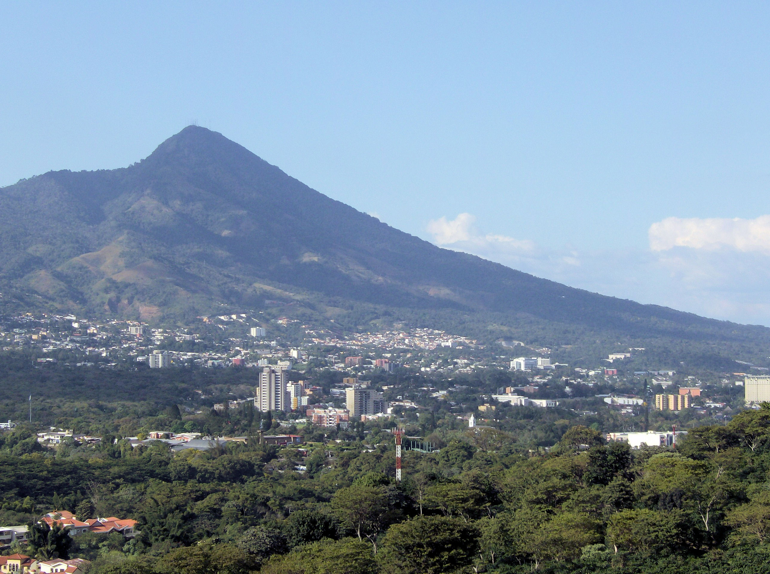 North San Salvador, seen from Santa Elena neighborhood.